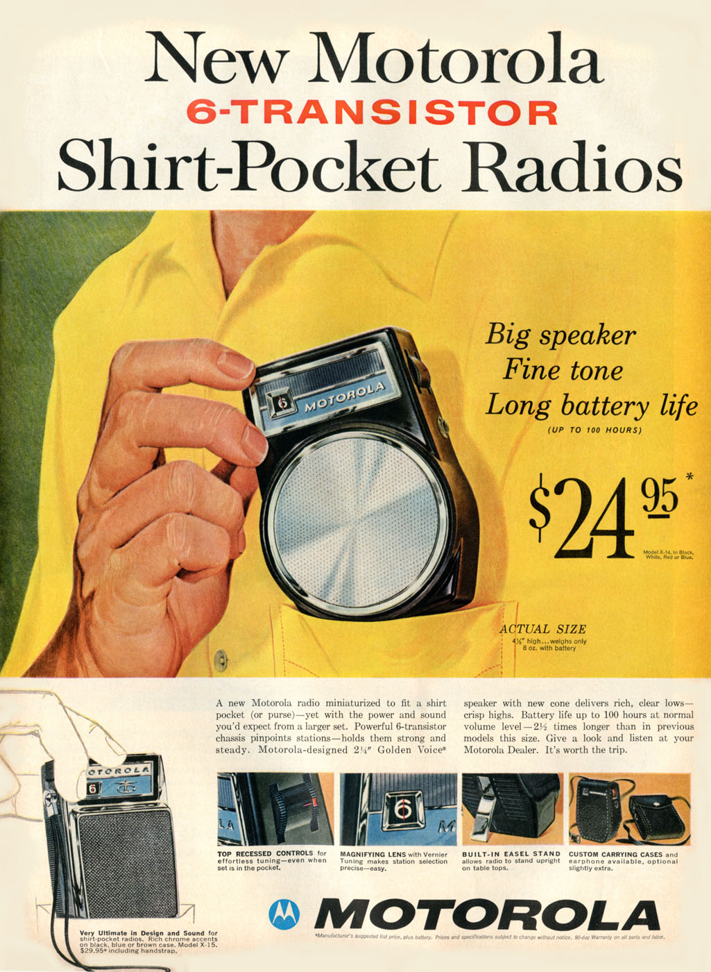 An early transistor pocket radio by Motorola. The first Motorola brand automobile radio was produced in 1930. Motorola began the commercial production of transistors at a new $1.5 million facility in Phoenix in 1955. This advertisement is from the May 23, 1960 issue of Life magazine (page 13).